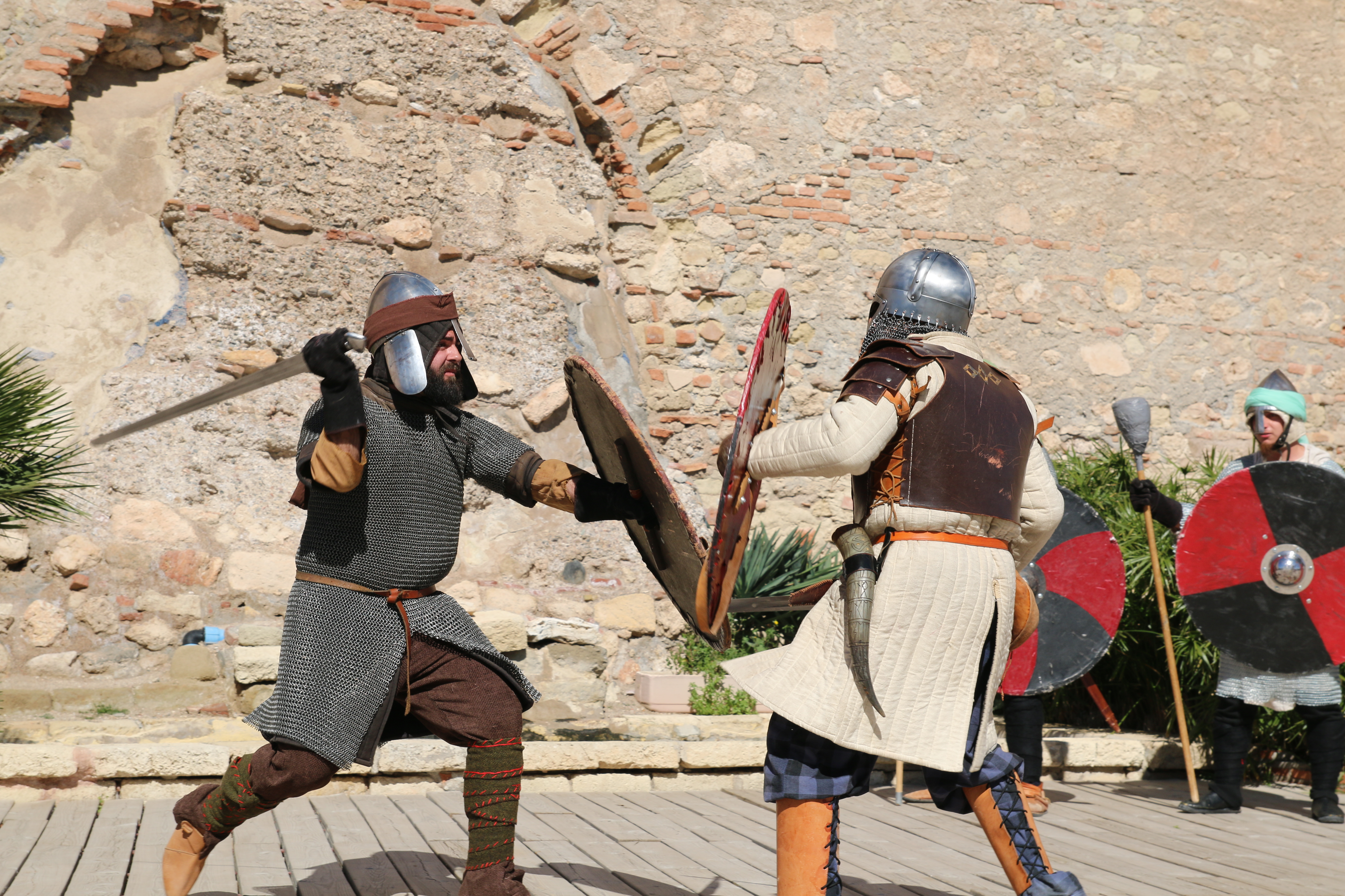 Reenactment of medieval combats between viking and andalusies troops.